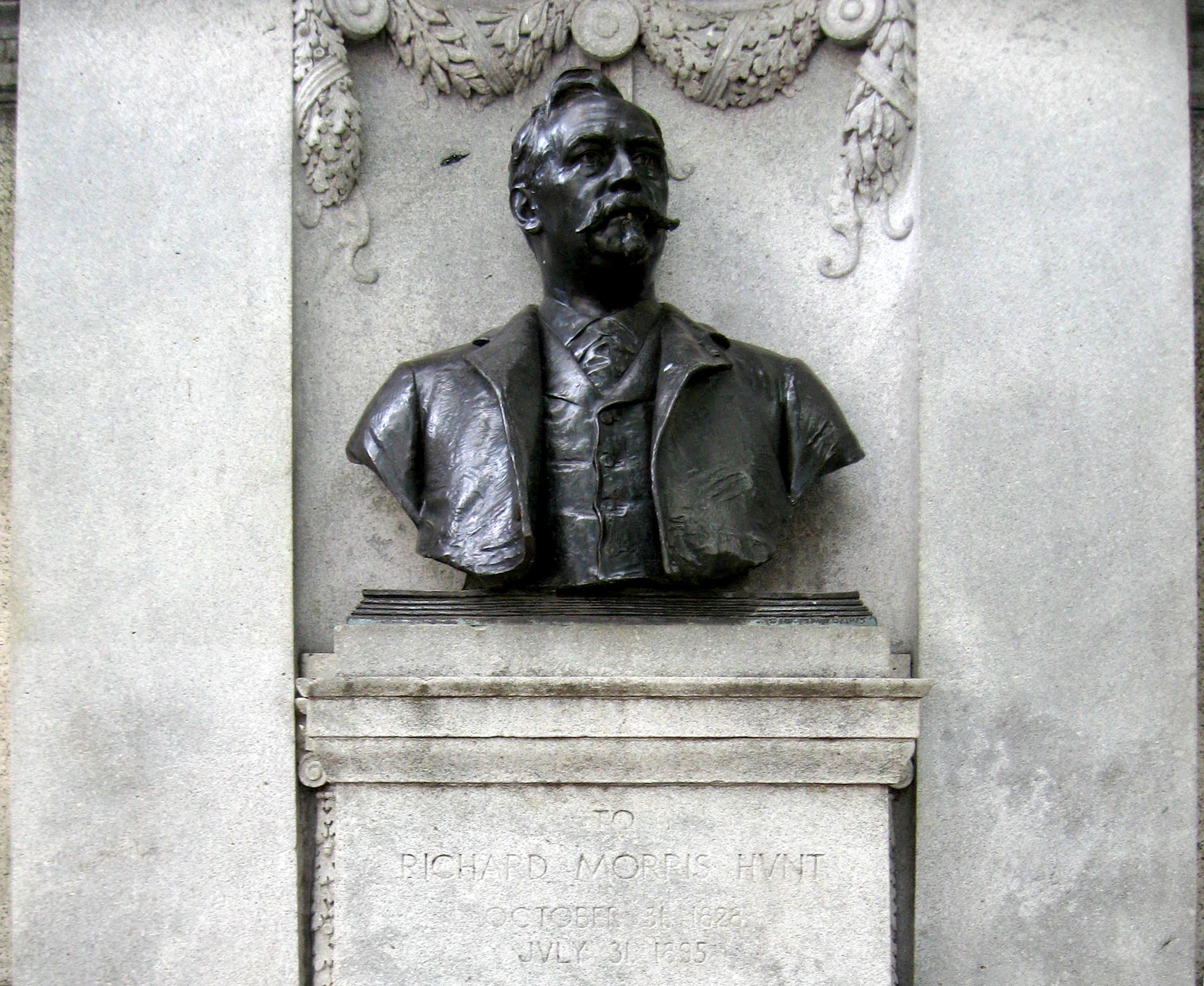 Looking west from 5th Avenue into Central Park at monument to Richard Morris Hunt by Daniel Chester French